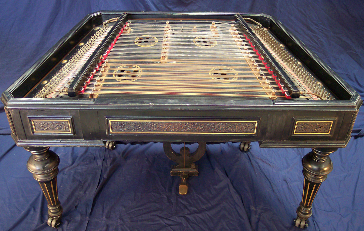 Cimbalom (from Emil Richards Collection). Range E2-E6, with an additional lower D2 string